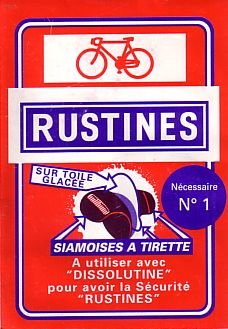 Pocket of tire patches, 1990's.